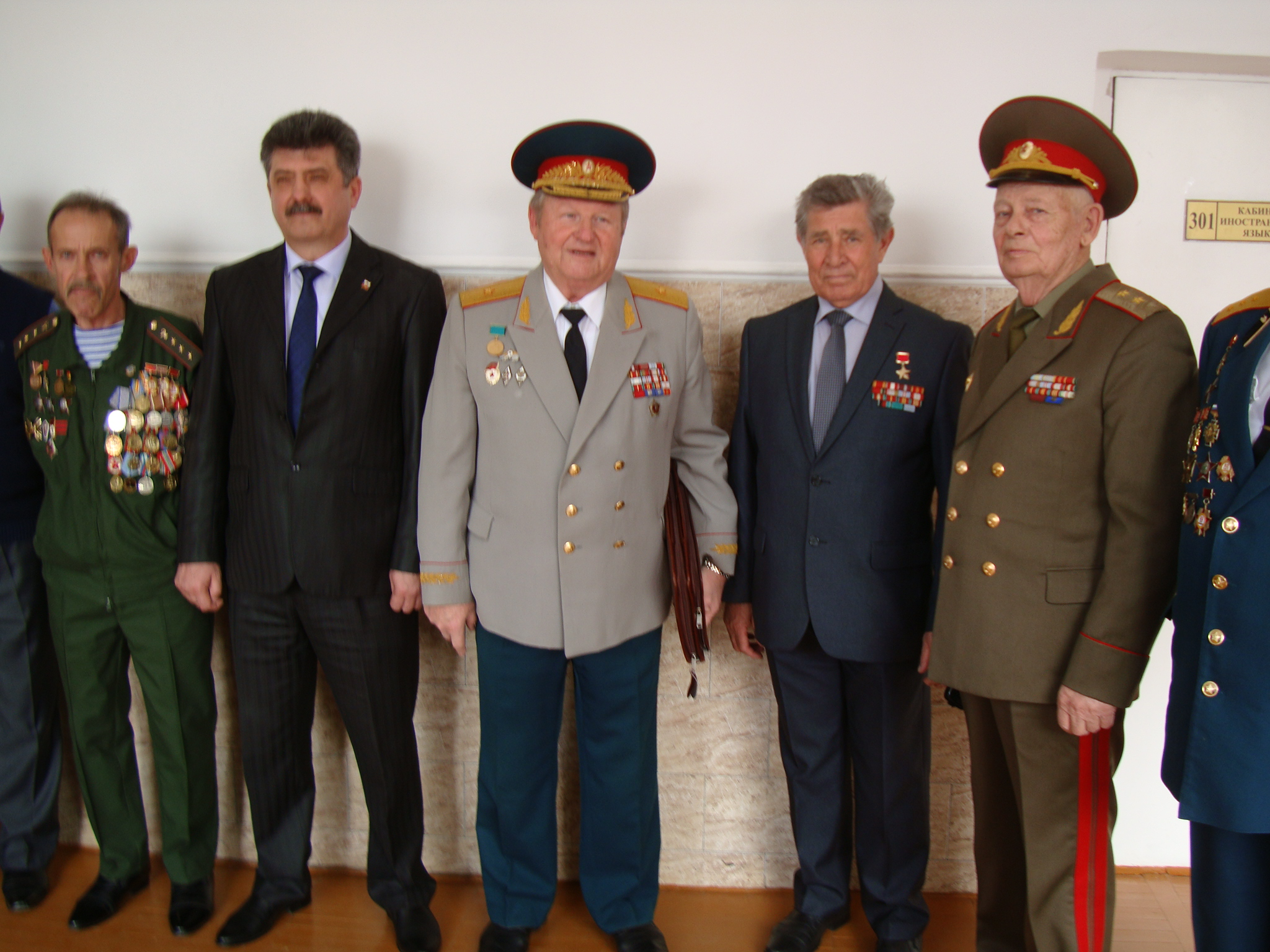 Heroes of the Soviet Union Haustov Grigori. Maikop 2015